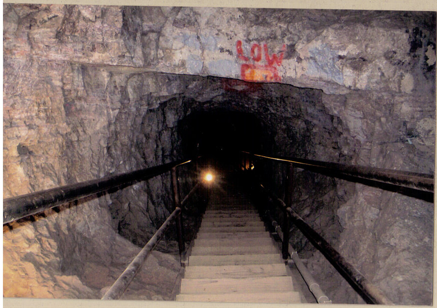 Inside Schieffin's Mine in Tombstone, Arizona. The Schieffelin mine was discovered by Ed Schieffelin in 1878. It produced silver worth millions of dollars. This property is located within the Tombstone Historic District listed in the National Register of Historic Places, ref: 66000171